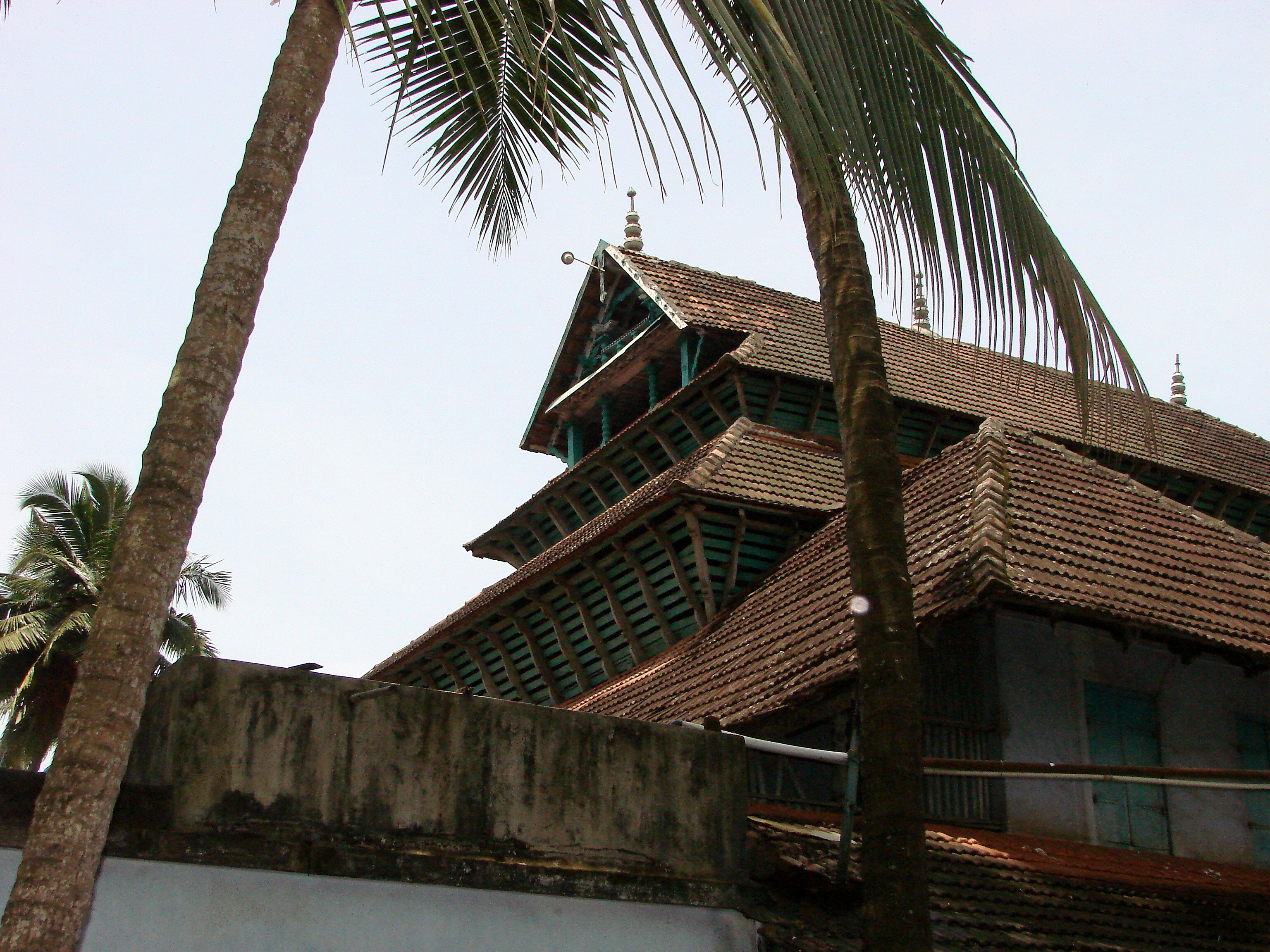 Mithqalpalli Mosque (14th century) in Kozhikode, Kerala, India. August 2008.